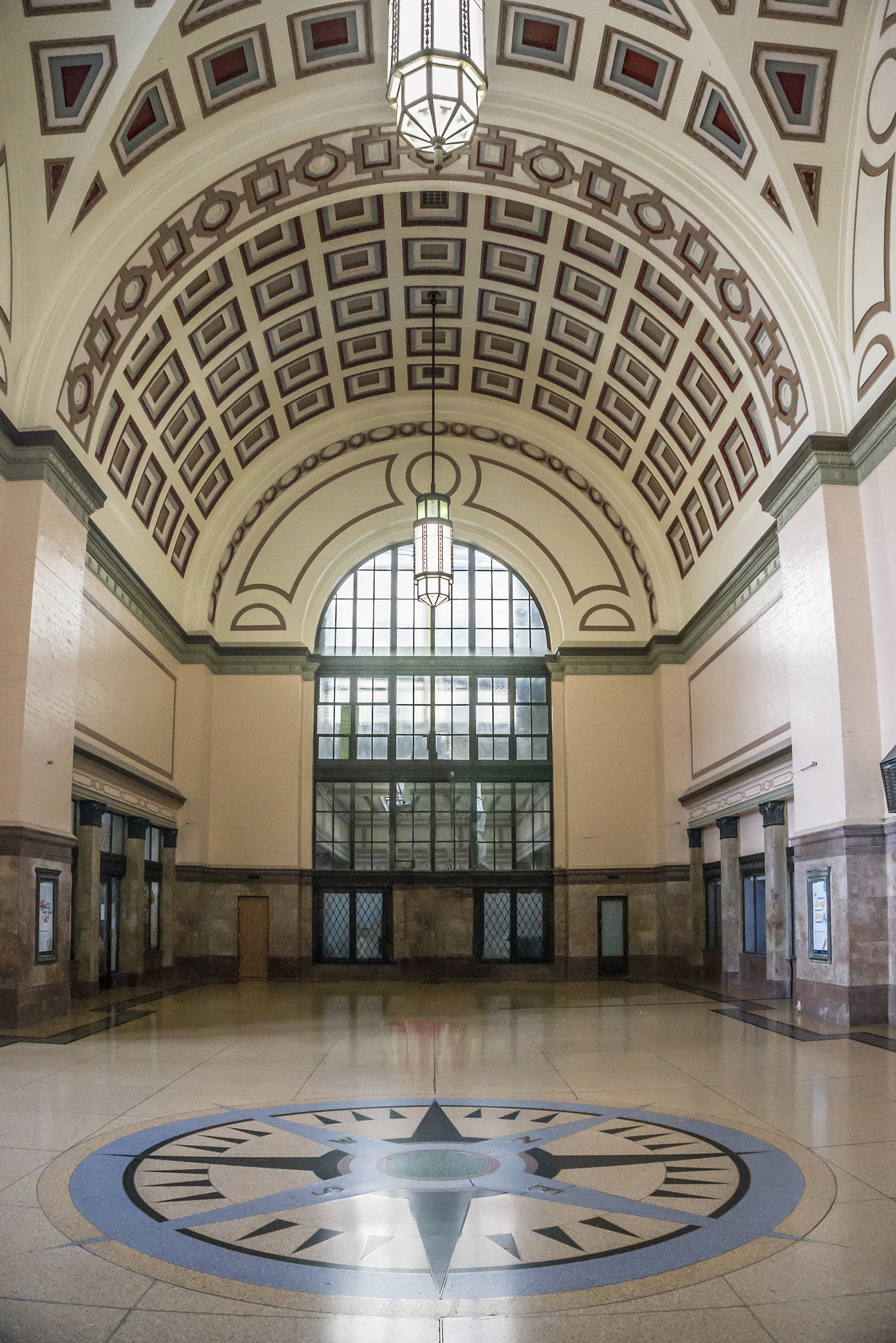 Ticket hall. Architect W Gray Young, Opened 1937